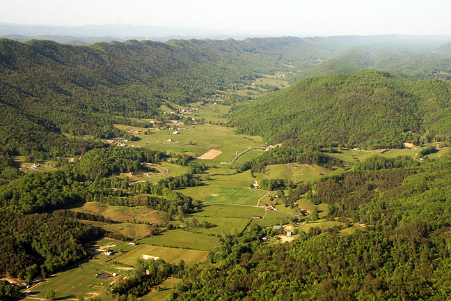 Aerial pic of Appalachian mountain ridges and valleys taken near Bristol, Tennessee